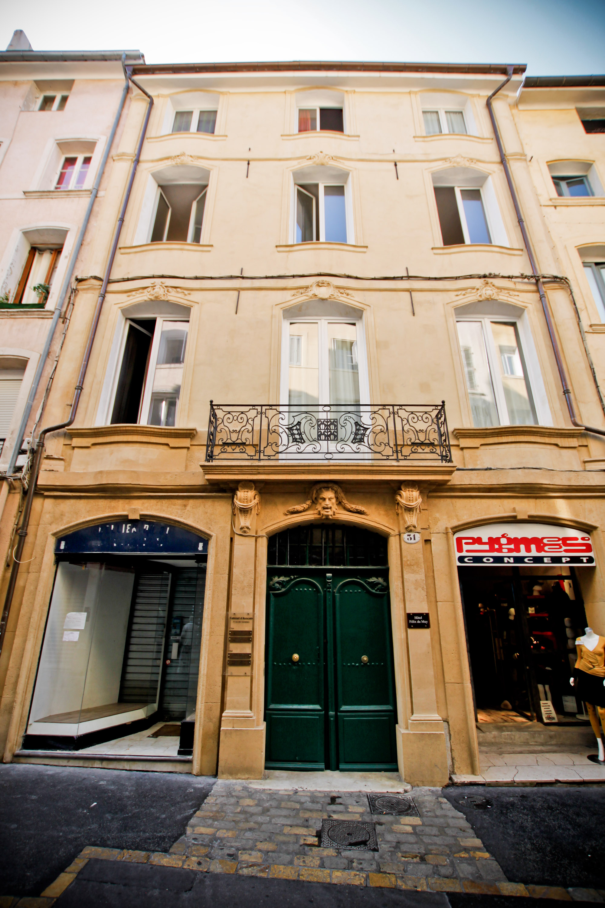 A photography of this house, shot by Marcel Bovis in february 1945, is in relation with the Mérimée identification PA00081075, which wrongly indicates that it is located 3-5 Lisse des Cordeliers' street. This Mérimée base photo is in fact located 31 Cordeliers' street.